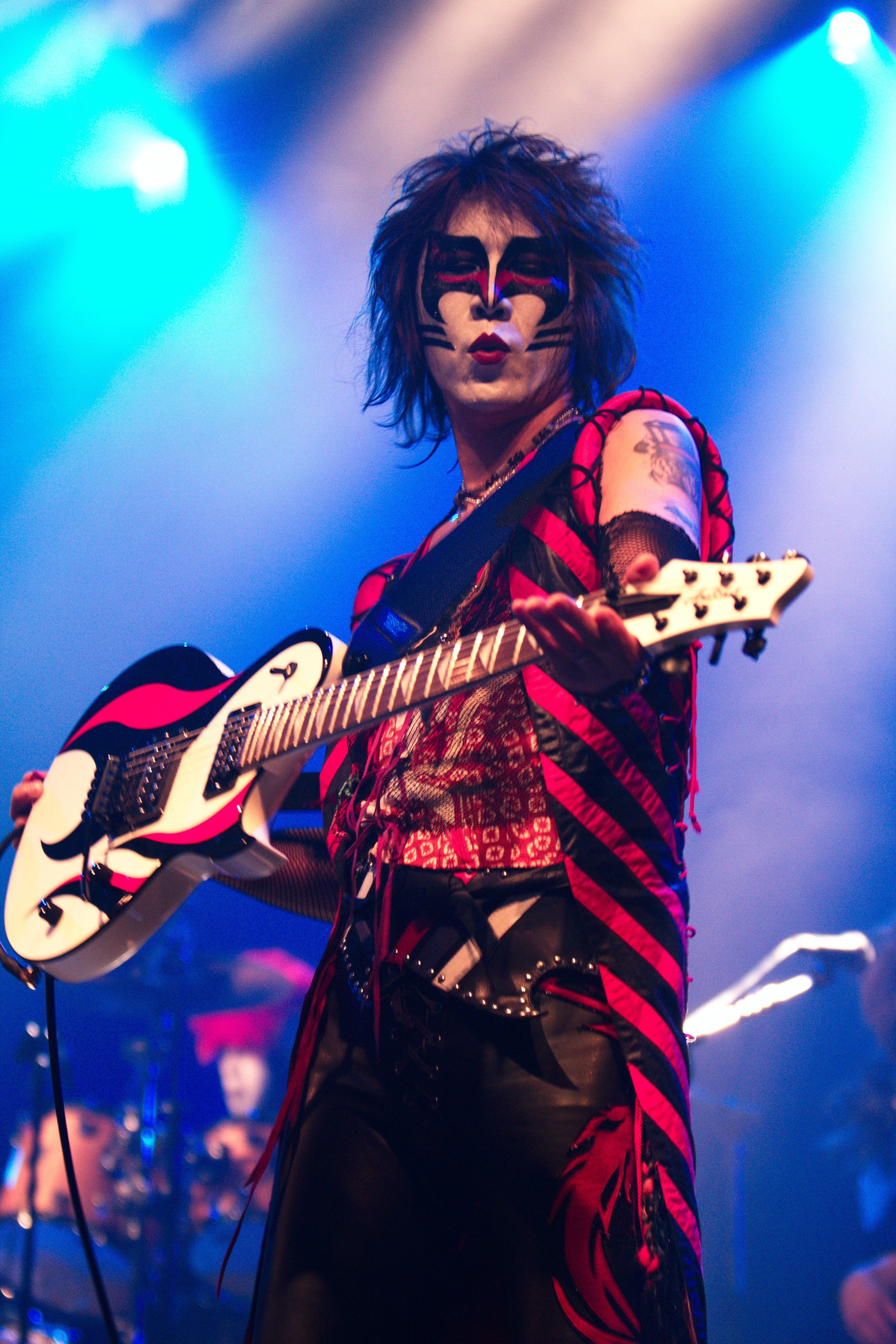 Seikima-II live at Japan Expo 2010 (Paris, France).